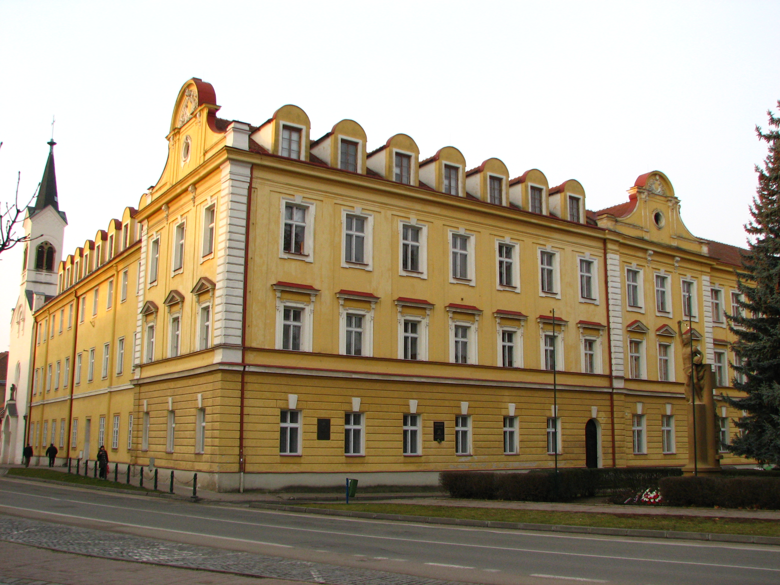 Klvaňa's Comprehensive School in Kyjov